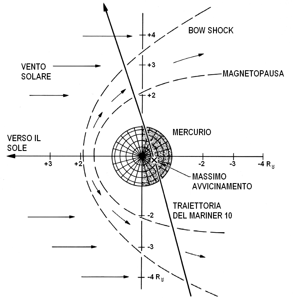 Mariner 10's path during third Mercury encounter